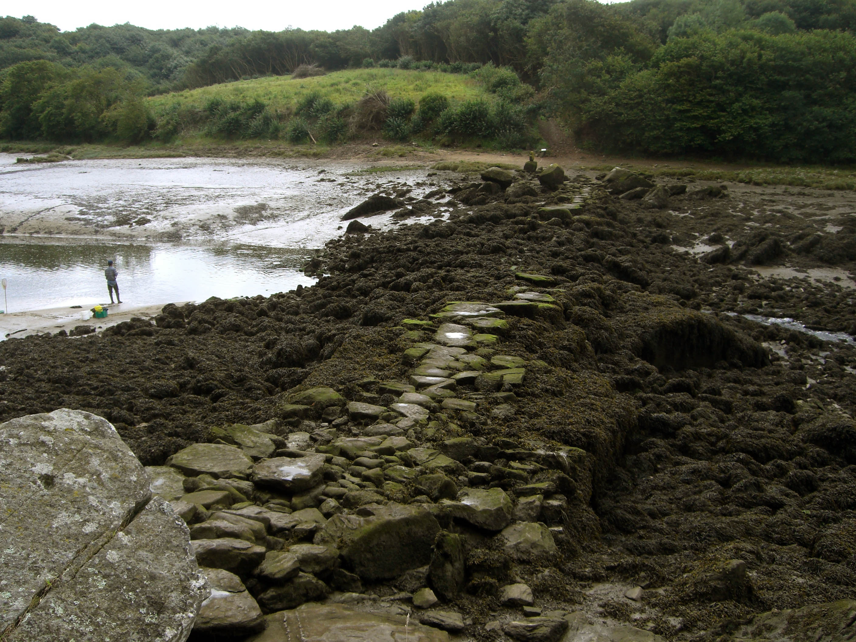 Plouguerneau, France, Pont Krac'h, "devil's bridge"